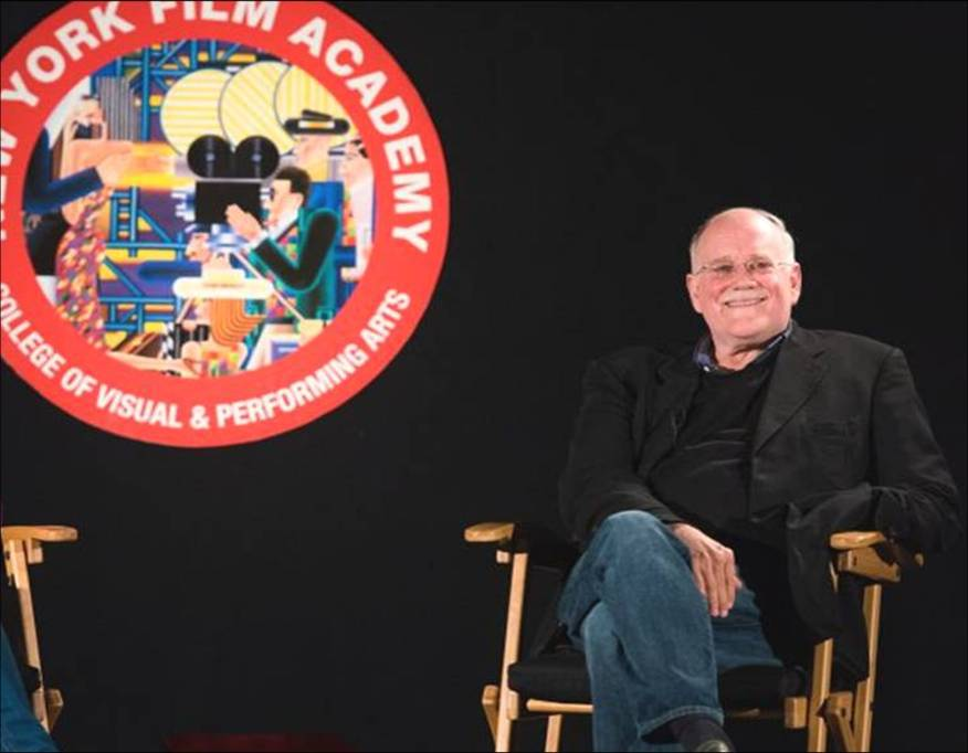 Ted Field speaks to young filmmakers at the New York Film Academy.